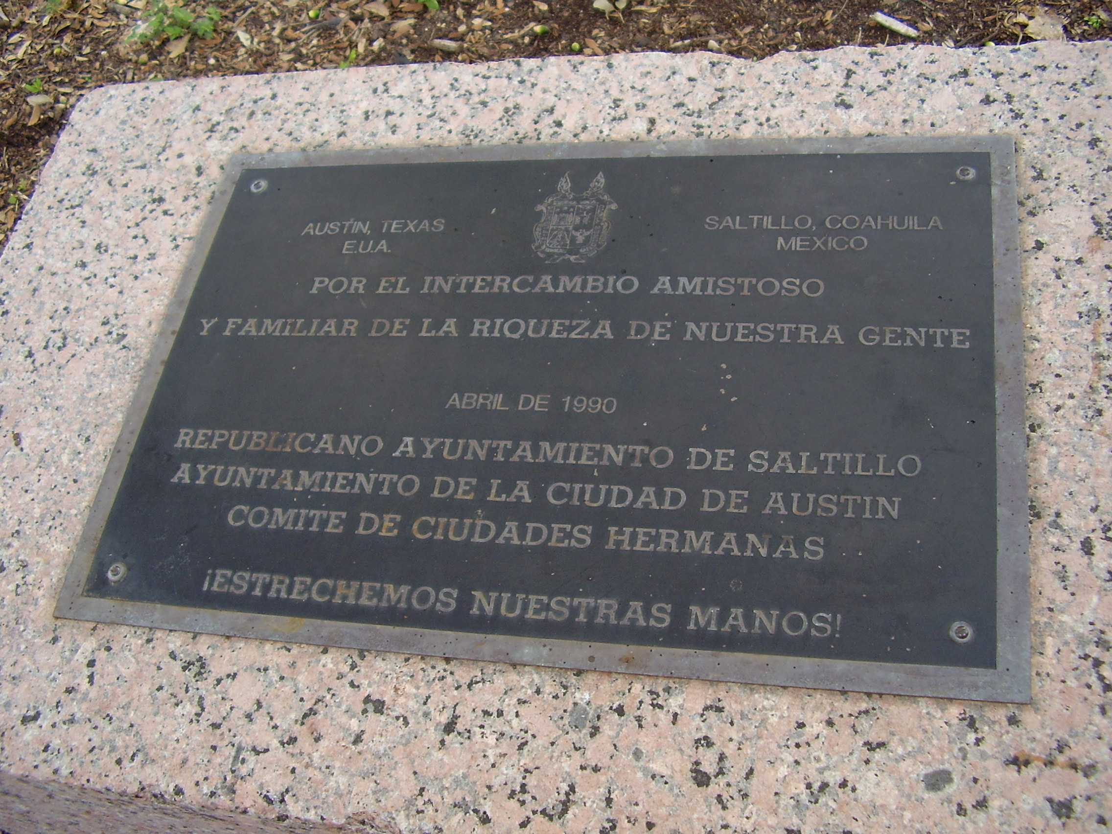 Sister city plaque between Austin, TX and Saltillo, Coahuila - In Austin, TX